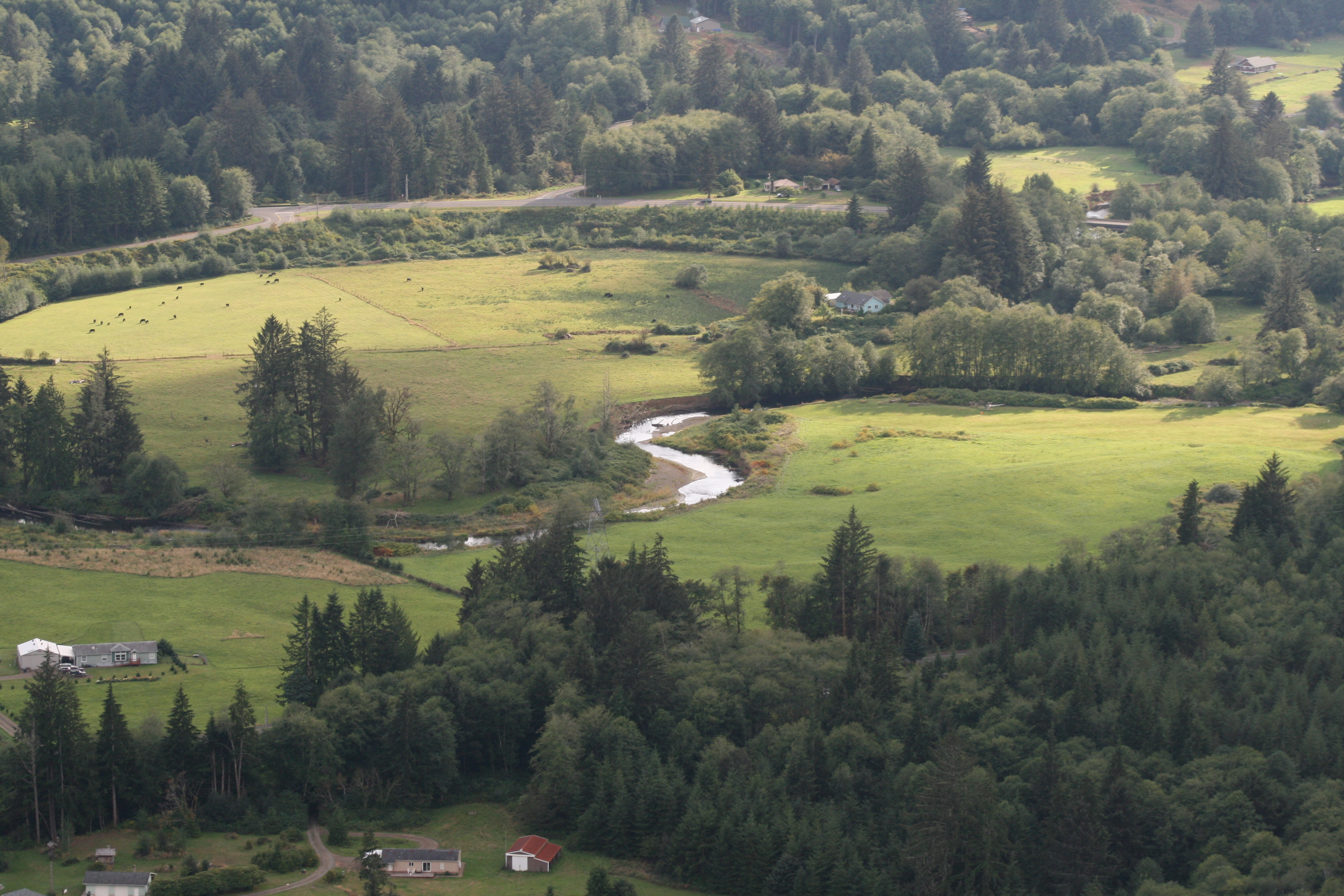 Cow fields, State Route 4, and the Naselle River.